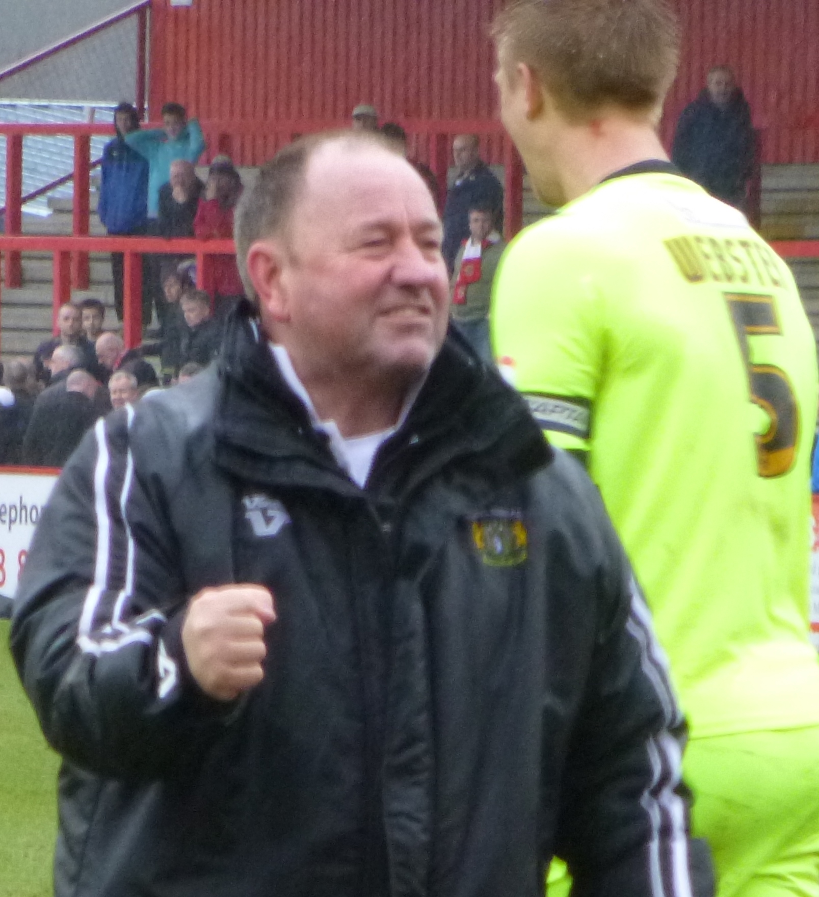 Photo taken of Gary Johnson celebrating Yeovil's 2–0 victory over Stevenage on April 13, 2013.